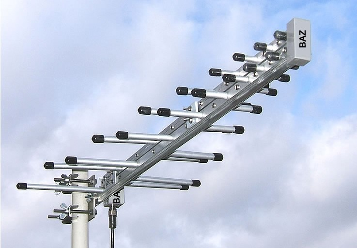 LPDA (Log.-periodic) Antenna, Frequency 400-4000 MHz for Amateurradio, EMC